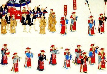 The Ryukyuan embassy of 1710